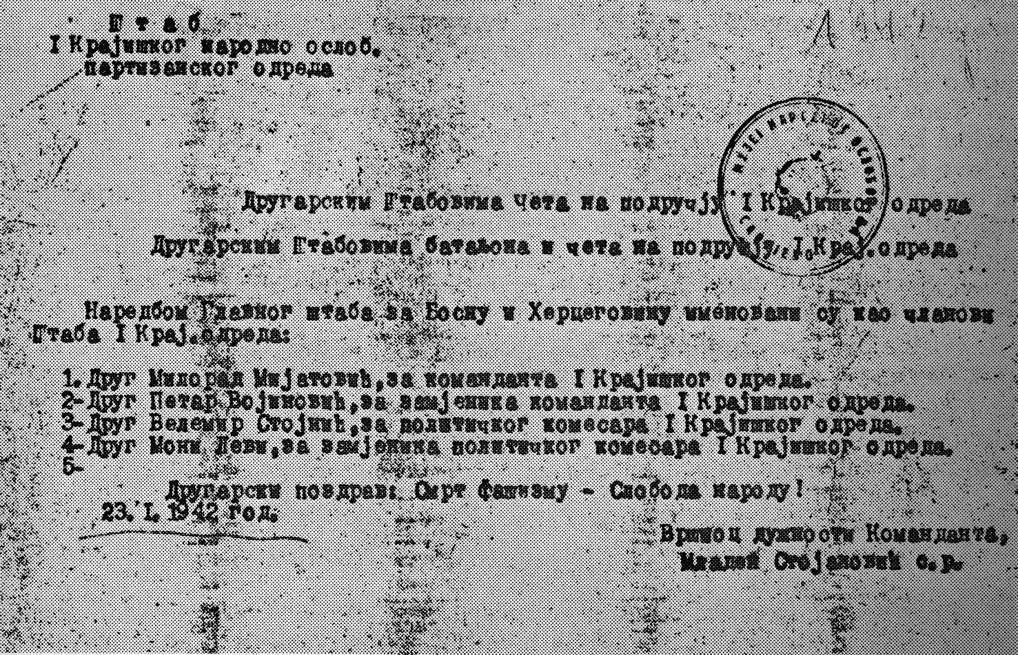 Document issued by Mladen Stojanović for the appointment of Milorad Mijatović, Petar Vojinović, Velimir Stojnić, and Moni Levi as members of the Headquarters of the 1st Krajina National Liberation Partisan Detachment